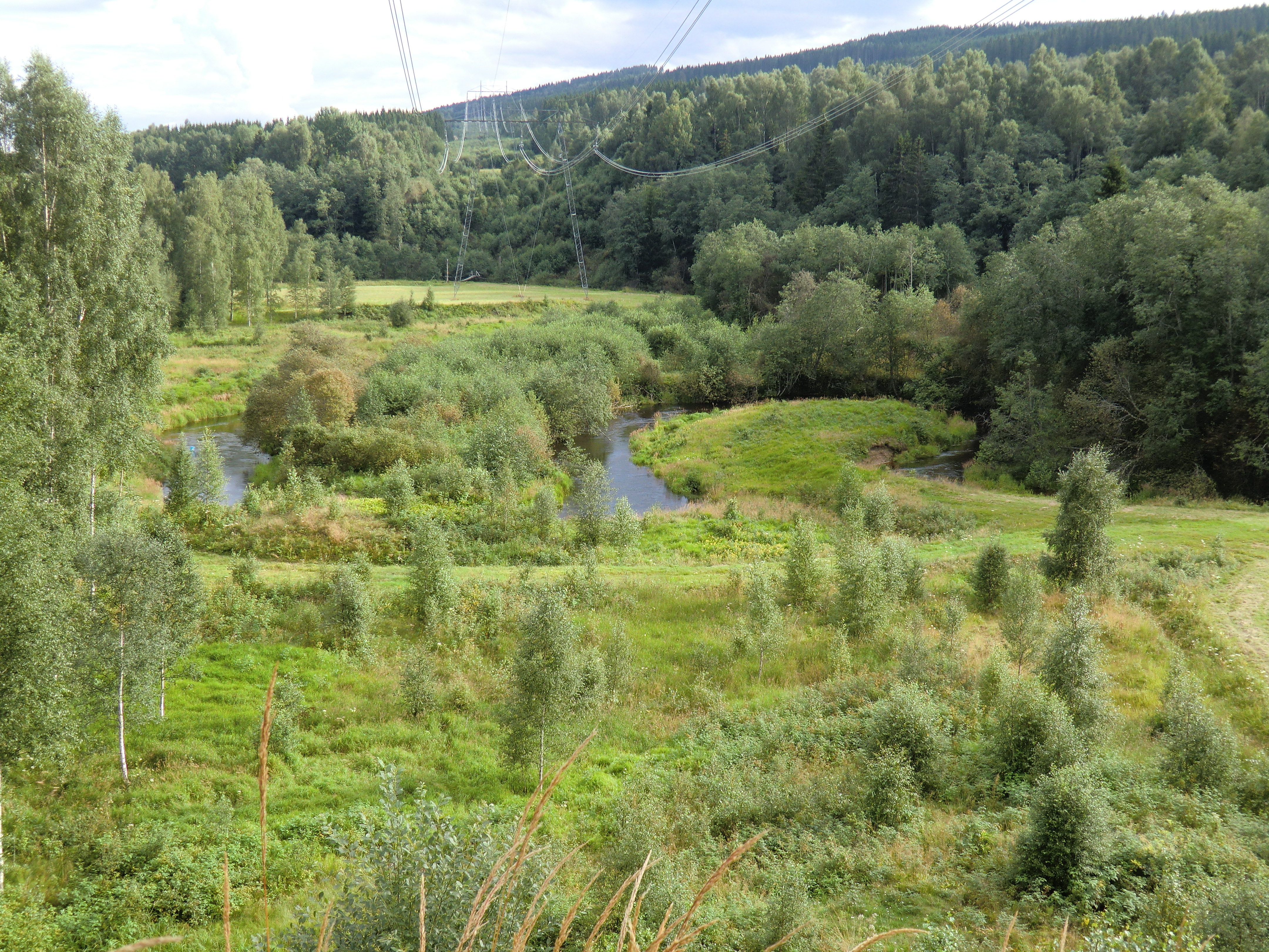 River Granån in Gräsmark, Värmland, Sweden